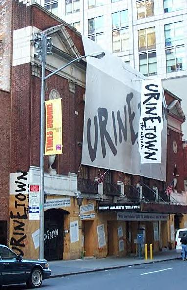 Henry Miller's Theatre facade, New York City